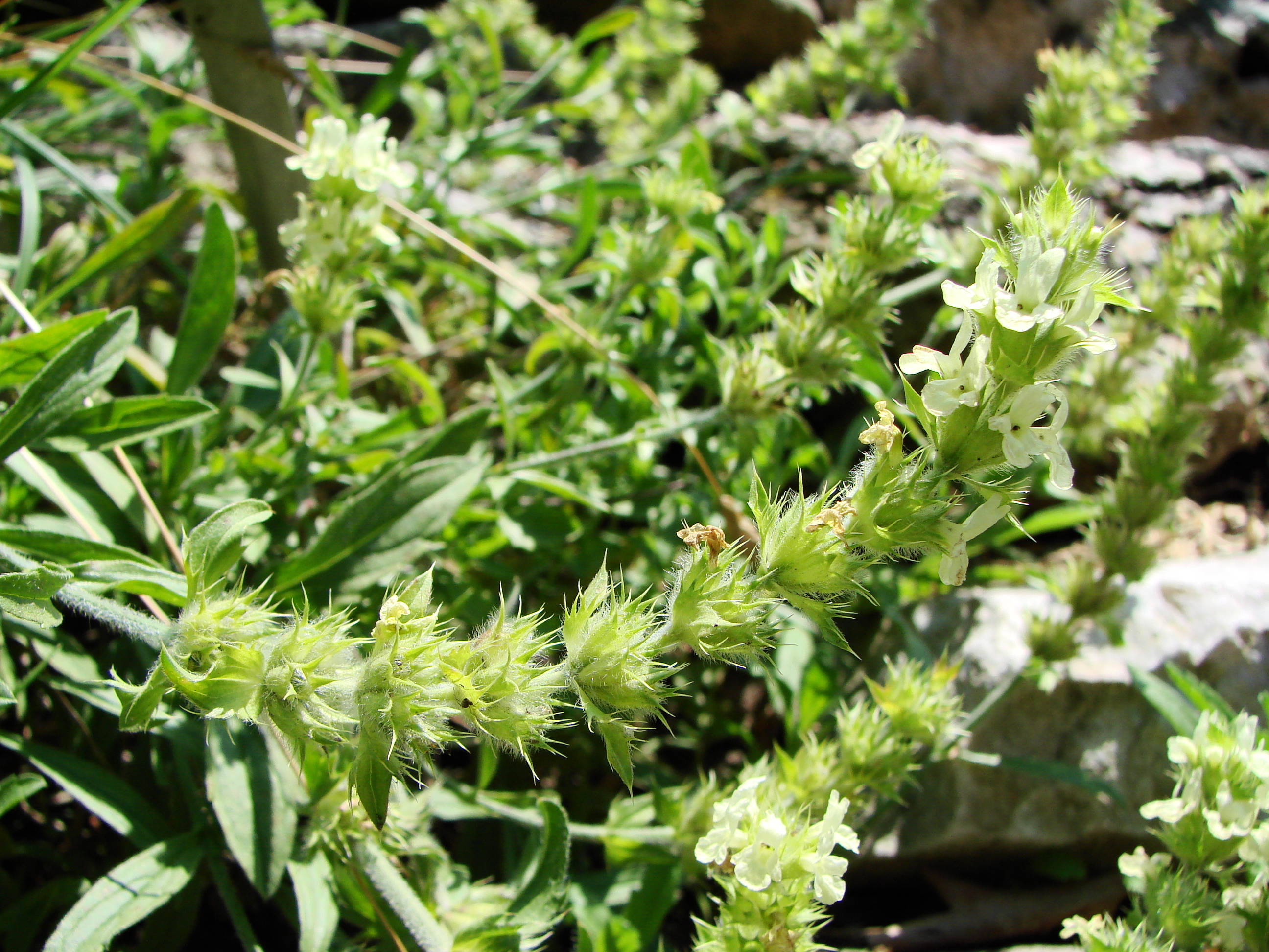 Picture taken in the university botanical garden of Wrocław (Poland): Sideritis hyssopifolia L.